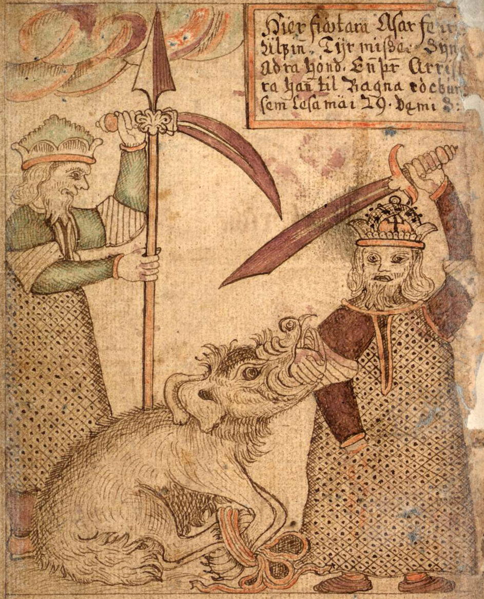 An illustration of the wolf Fenrir biting the right hand off the god Týr, from an Icelandic 18th century manuscript.